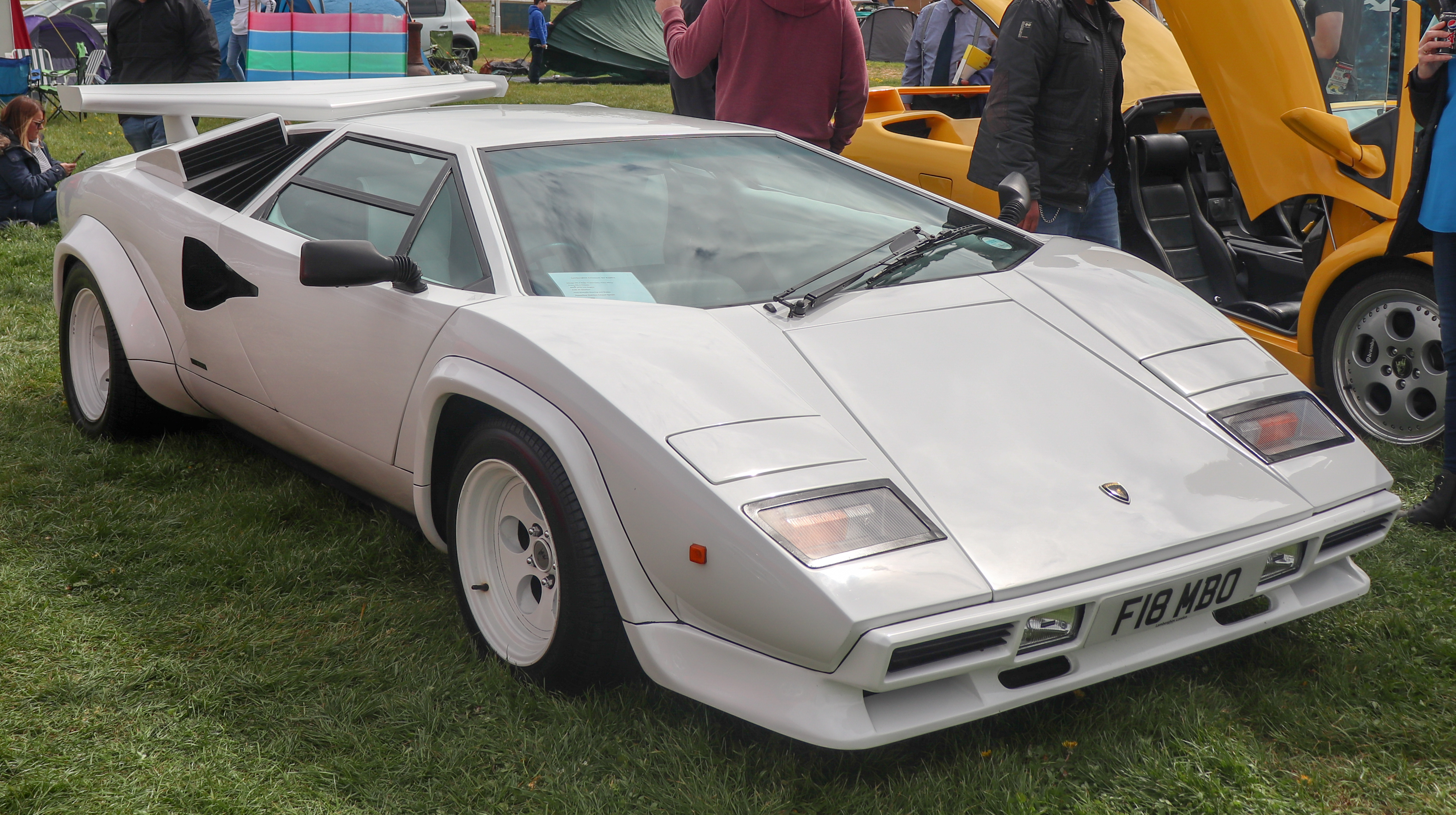 1994 Prova Lamborghini Countach 5000 Replica 4.6 Front Taken at the Stoneleigh National Kit Car Motor Show 2019